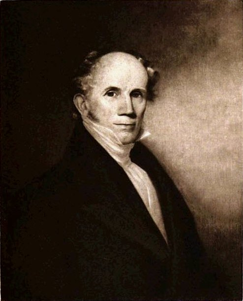 Condy Raguet, U.S. chargé d'affaires to Brazil (1825 - 1827), Pennsylvania State Senator (1818 - 1821), Founder of the Philadelphia Savings Fund Society. Screen grab from book, rotated and adjusted brightness and contrast.